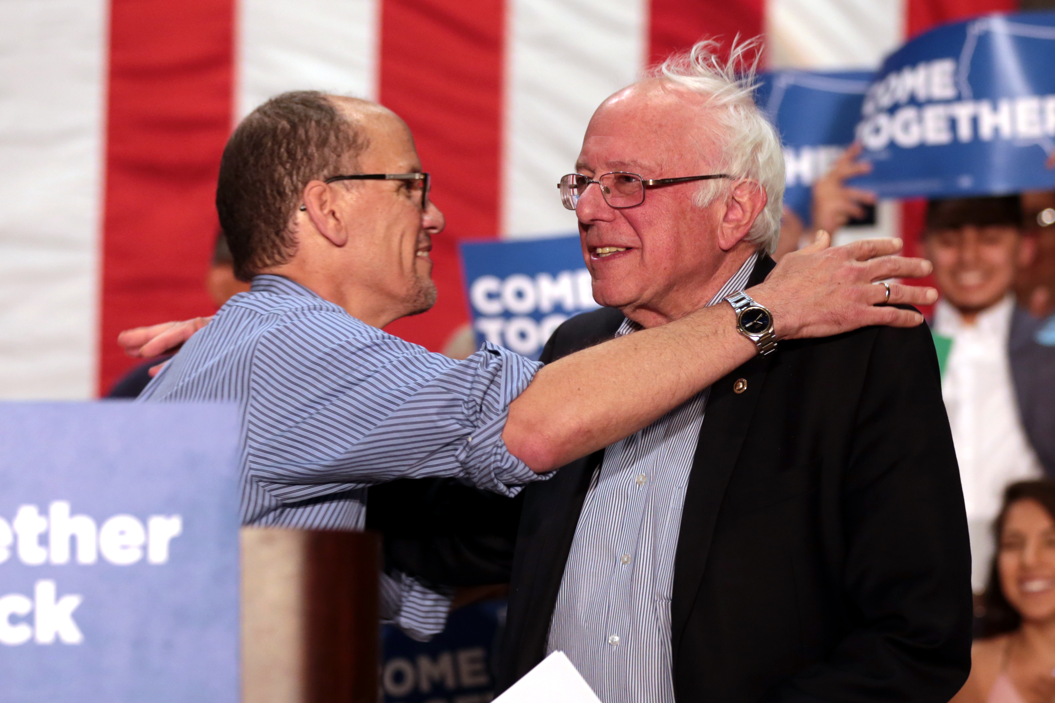 Chairman Tom Perez and U.S. Senator Bernie Sanders speaking with supporters at a "Come Together and Fight Back" rally hosted by the Democratic National Committee at the Mesa Amphitheater in Mesa, Arizona.